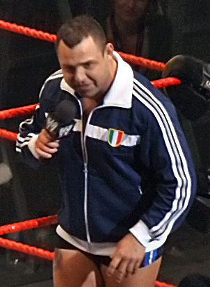 Santino Marella (Anthony Carelli) talking on the microphone prior to his match. Taken during the WWE Raw - Survivor Series Tour, at Rod Laver Arena, Melbourne Park, Melbourne, Australia. Marella wrestled Hacksaw Jim Duggan on the night; Duggan won the match, pinning Marella following a three-point stance tackle.